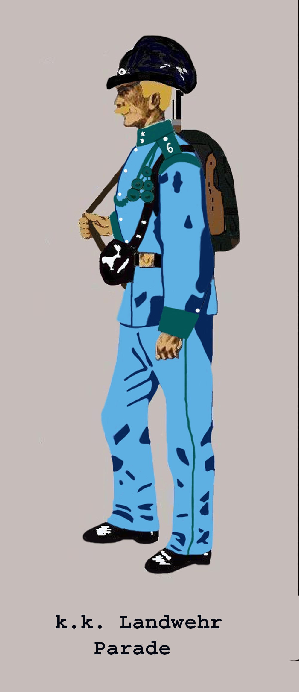 Austrian «Landwehr» in Parade dress after 1908